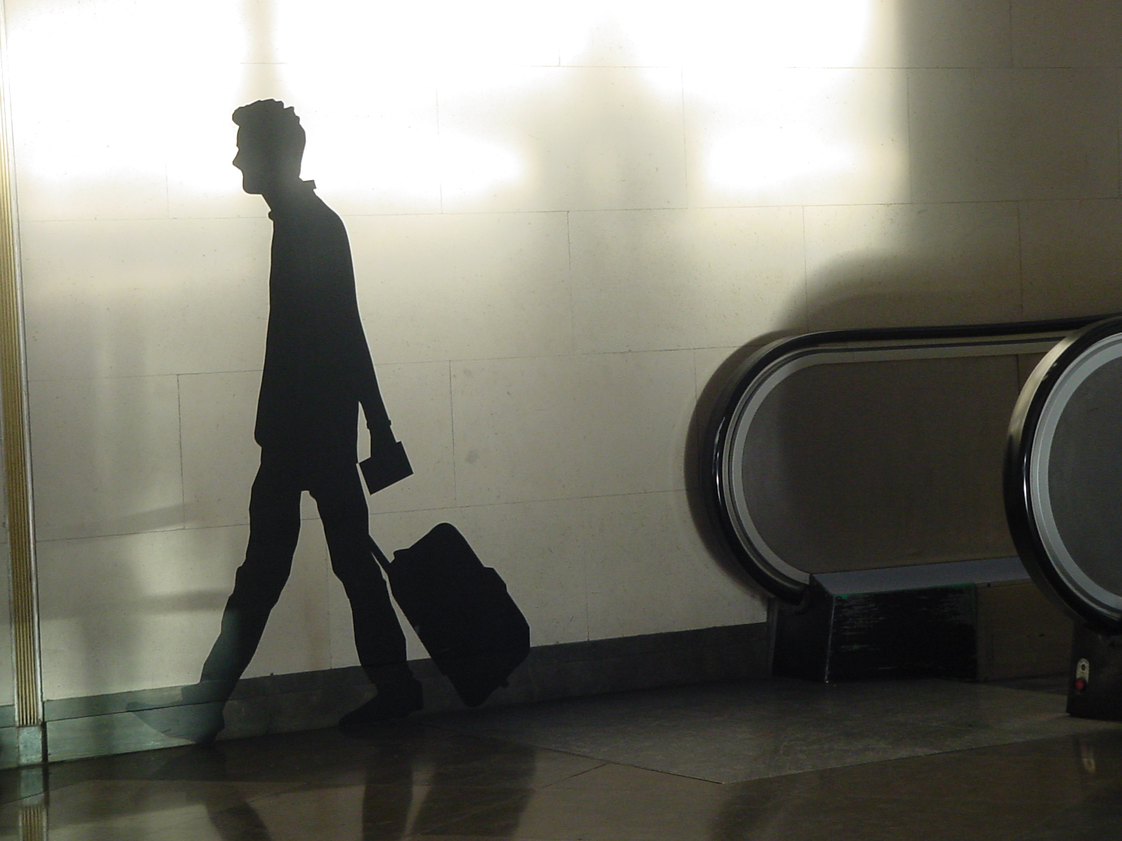 Bus station in Granada, Spain